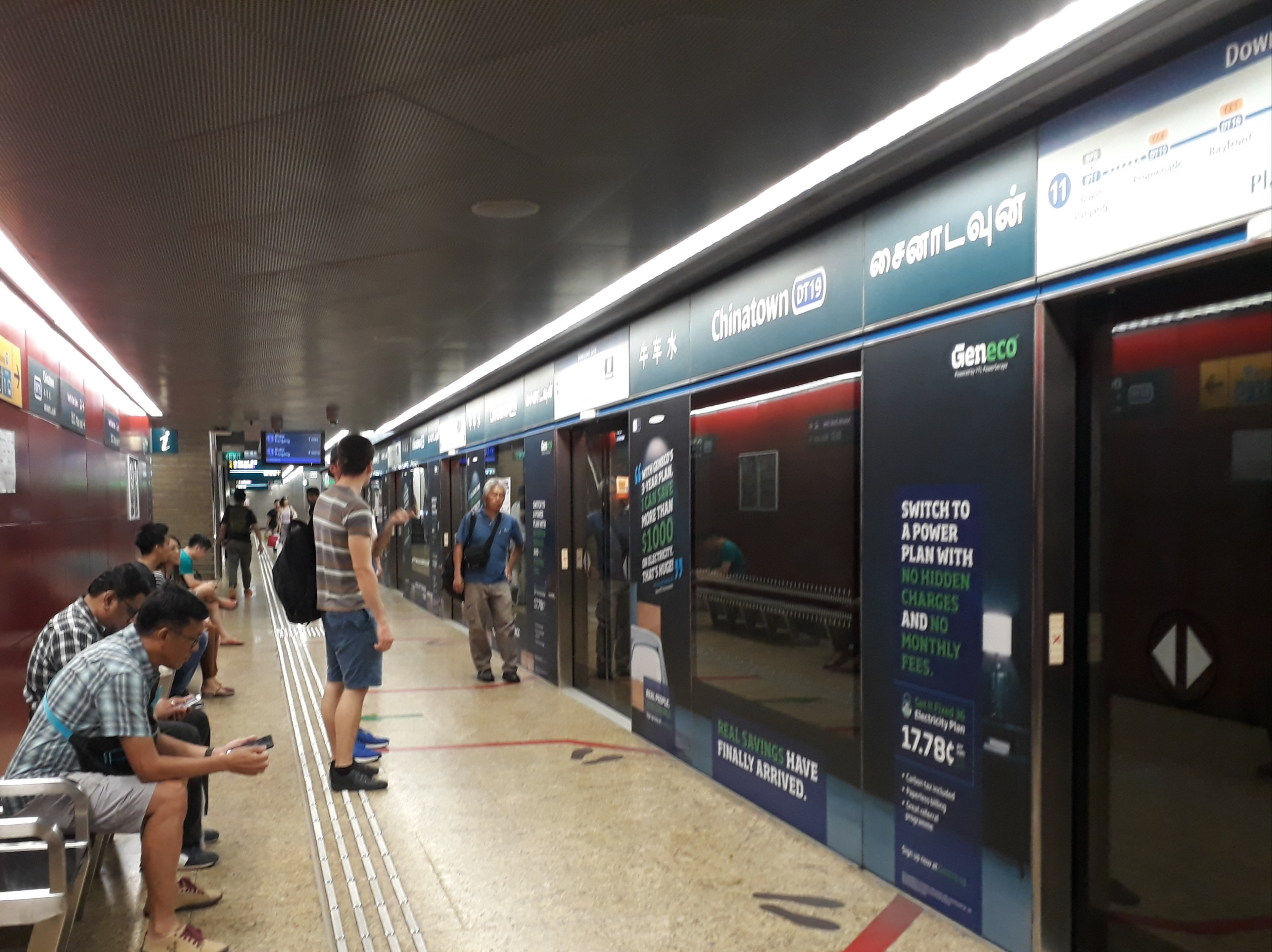 Chinatown DTL Platform